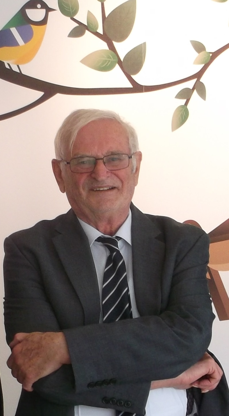 Dr. sc. Mijo Lončarić, Croatian linguist, expert of the Kajkavian (kajkavski). Hotel Park, Čakovec. IX. Skokovi etimološko-onomastički susreti